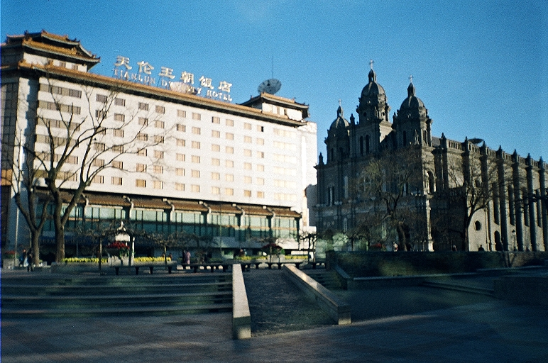 St. Joseph's Church(东堂) has had a pretty eventful history. It was built on donated ground by Jesuits in 1655, toppled by an earthquake in 1720, gutted by fire and then demolished in 1812, rebuilt in 1860 and then set fire to again during the Boxer rebellion. Now its grounds are mostly used by skateboarders, though services are also held. The hotel behind, with its pseudo-traditional roof, presents an interesting architectural contrast.